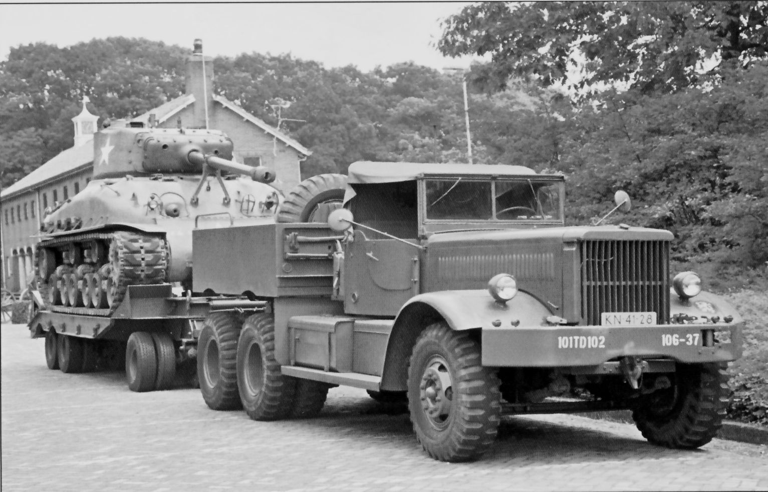 Diamond T Tranksporter with Sherman tank, in use by the Dutch army. Picture taken at the historic army days at Oirschot, the Netherlands